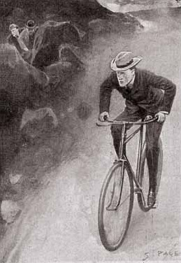 Arthur Conan Doyle, The Adventure of the Priory School (1904), Illustration by Sidney Paget, in The Strand Magazine